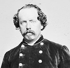 Lt. Col. Charles E. Capehart, 1st WVA Cavalry, (from wet collodion glass negative) photo taken 1864 or 1865